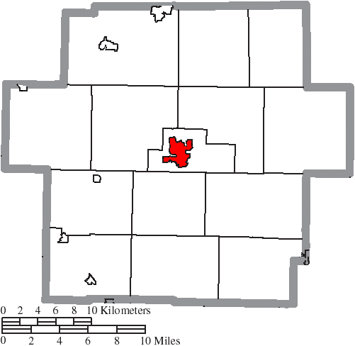 Map of the municipal and township boundaries of Carroll County, Ohio, United States, as of the 2000 census, with the location of the village of Carrollton highlighted. Township borders are shown only in unincorporated areas in order to differentiate incorporated and unincorporated areas more clearly.